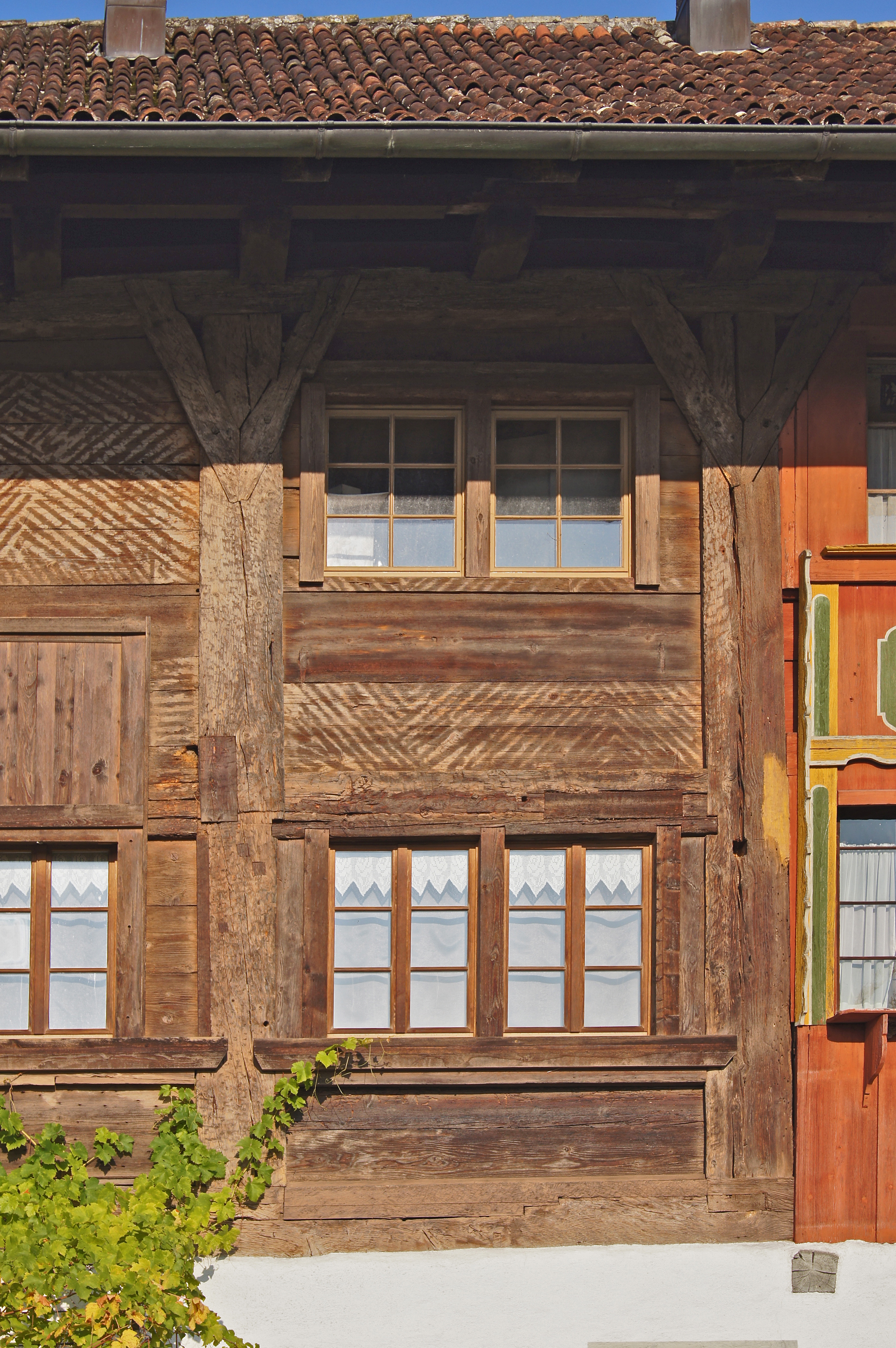 This building, the central part of which was constructed as a plank house ca. 1460, now houses the town museum. The dyer Johannes Pfenninger (1717-1795) presided as judge over the village court in a room on the third floor. At the end of the 18th century, the dyeing plant was discontinued in favor of a textile printing plant and milling operation.